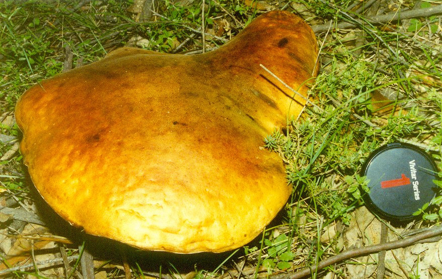 Phlebopus marginatus cap - East Gippsland (Errinundra NP)